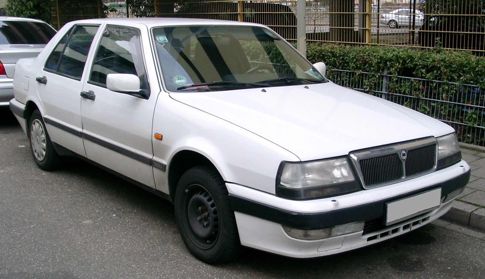 Lancia Thema